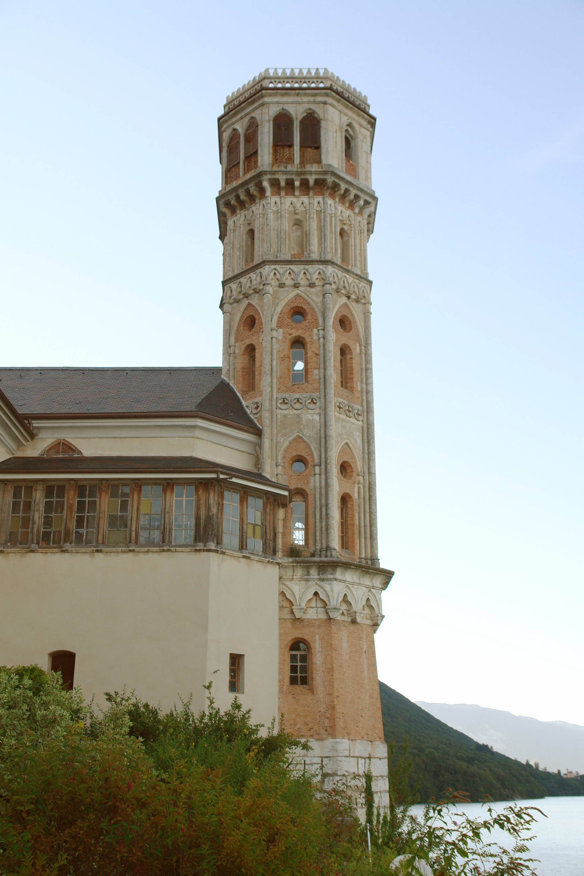 Lighthouse of Hautecombe Abbey.